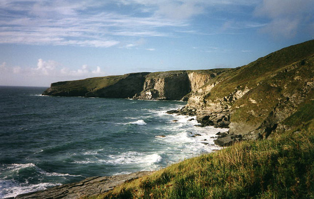 Tintagel: overlooking Trebarwith Strand. View from the coast path looking north